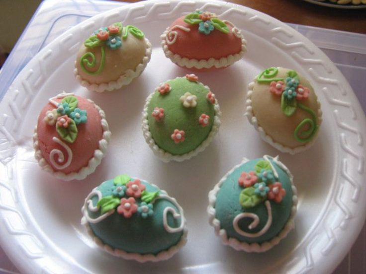 sweets